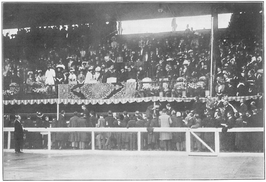 King Edward VII at opening ceremony of Olympic games 1908